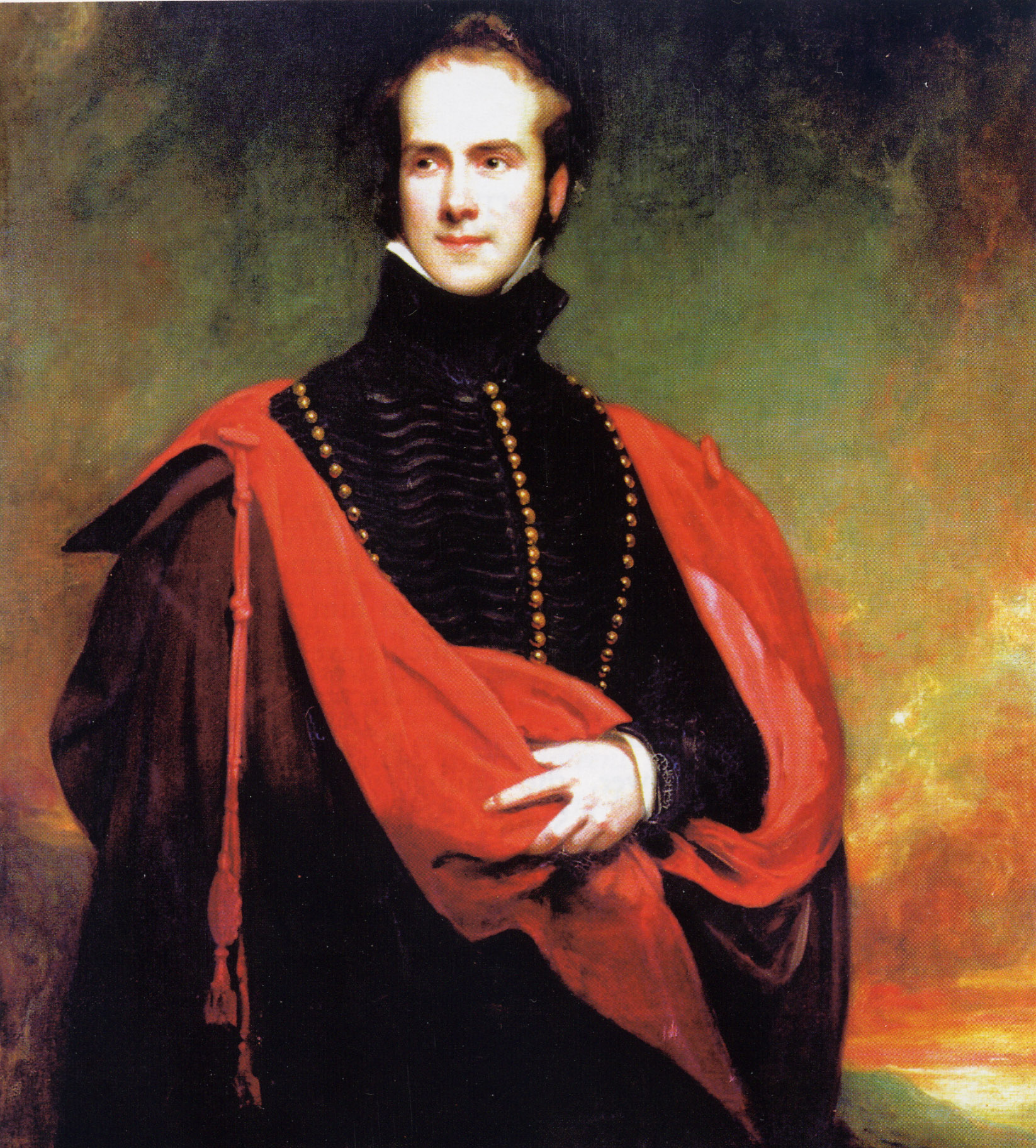 Painting of Robert, 2nd Marquess of Westminster